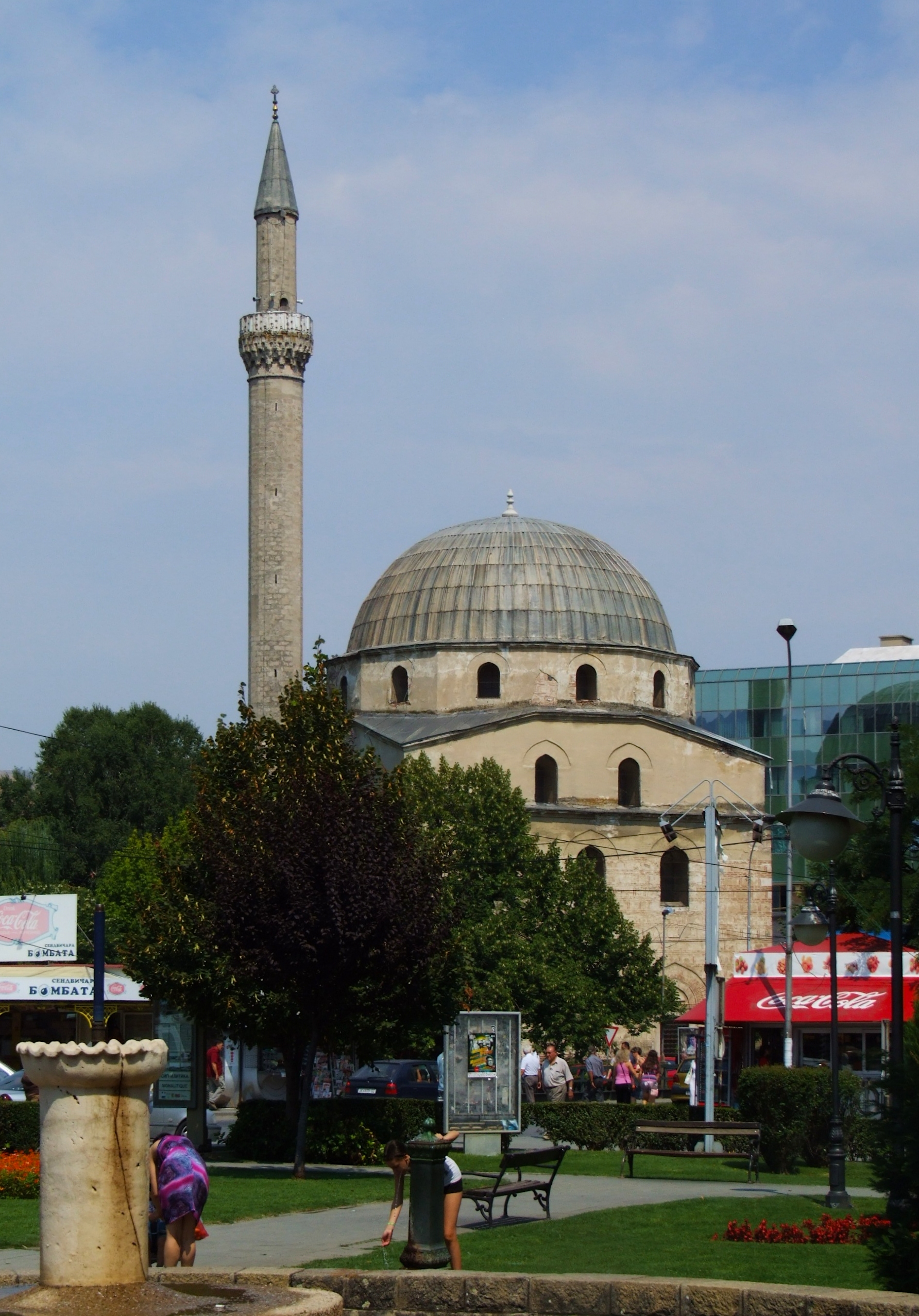 Isak Džamija (mosque) in Bitola, Macedonia